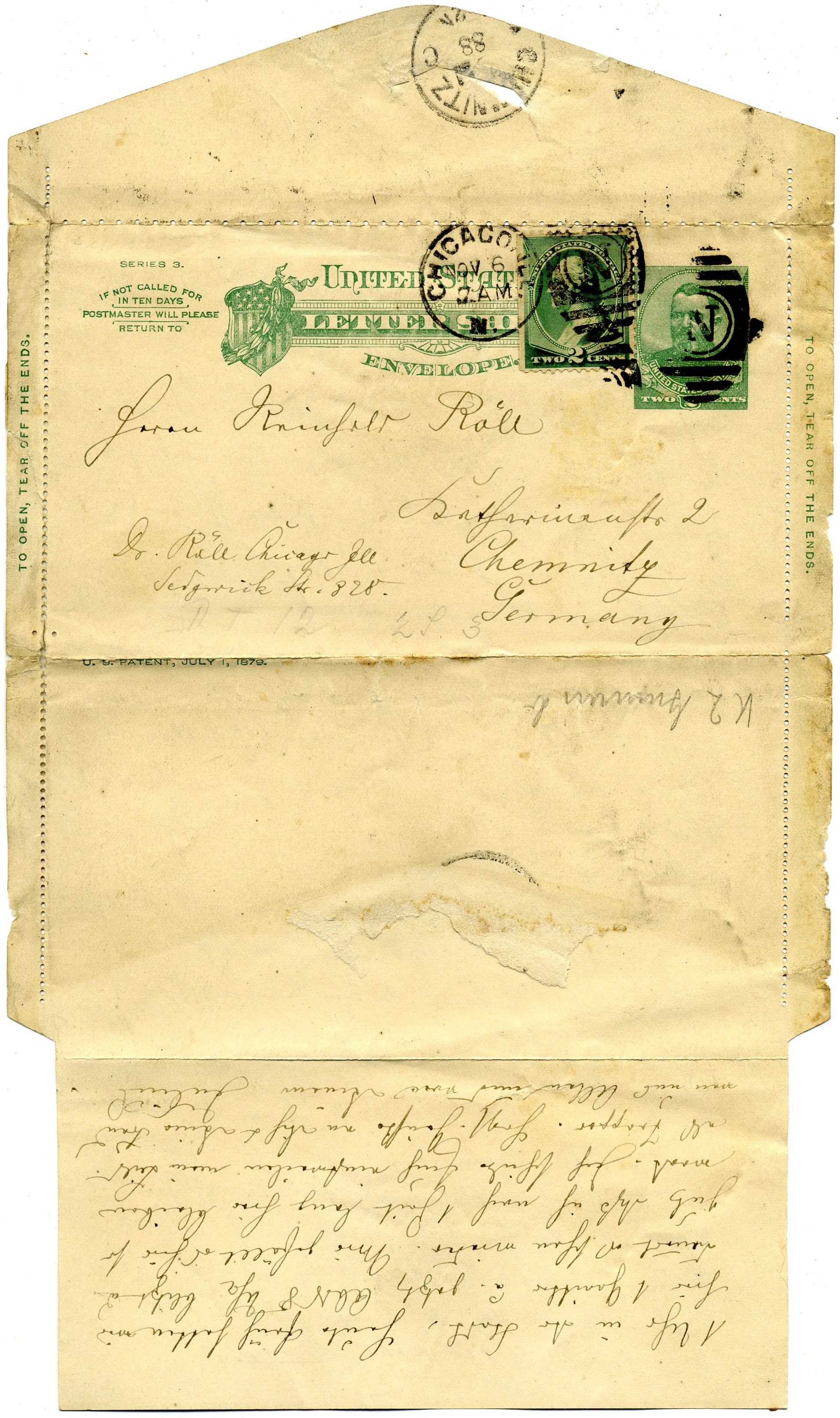 1886 letter sheet, used from Chicago to Germany in 1888 with U.S. Grant depicted on 2c denominated indicium and George Washington illustrated on additional 2c postage stamp issued in 1887.